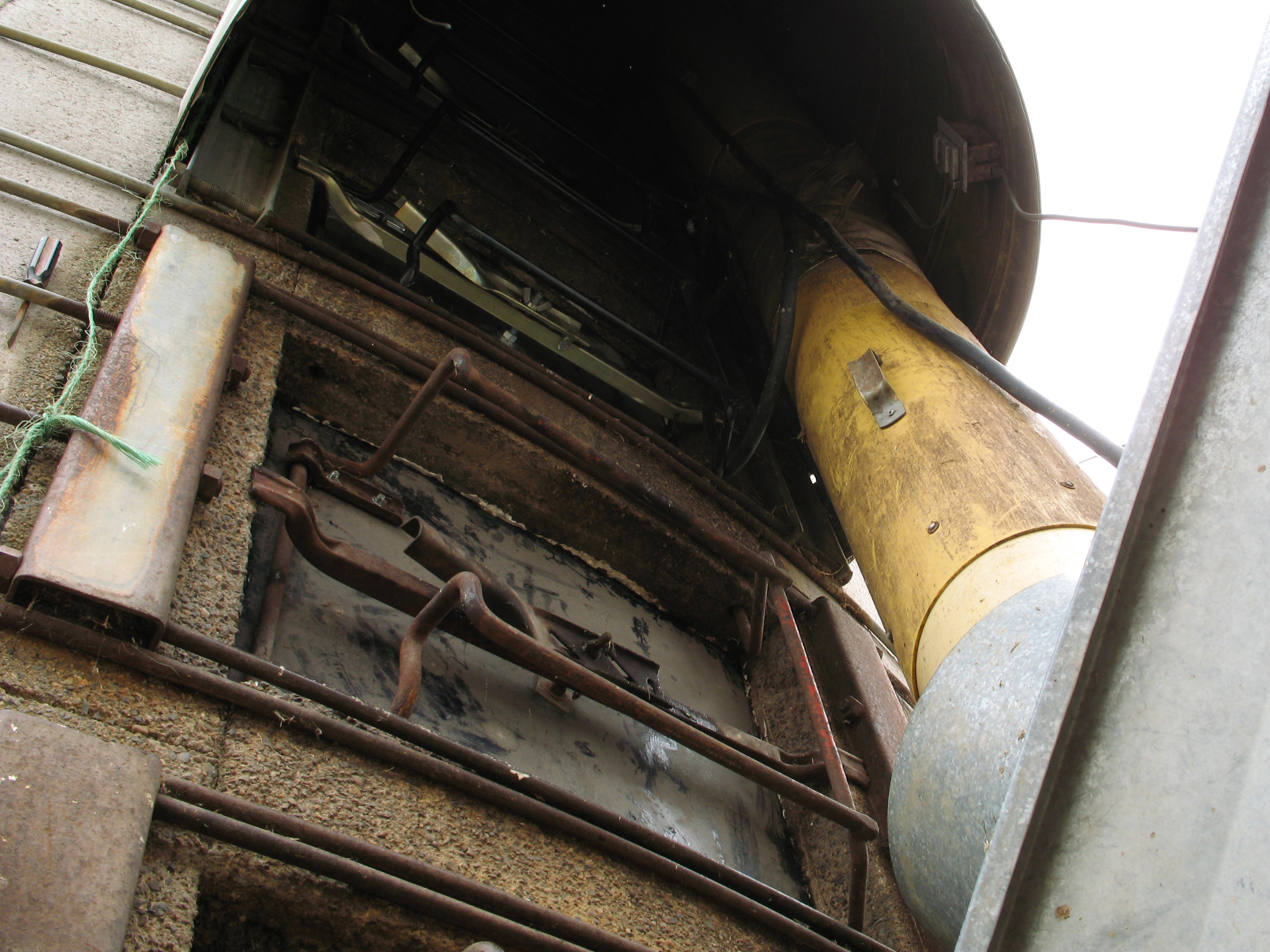 Base of stave silo by the silo unloading doors, silage drop tube, and conveyor that goes into the barn.